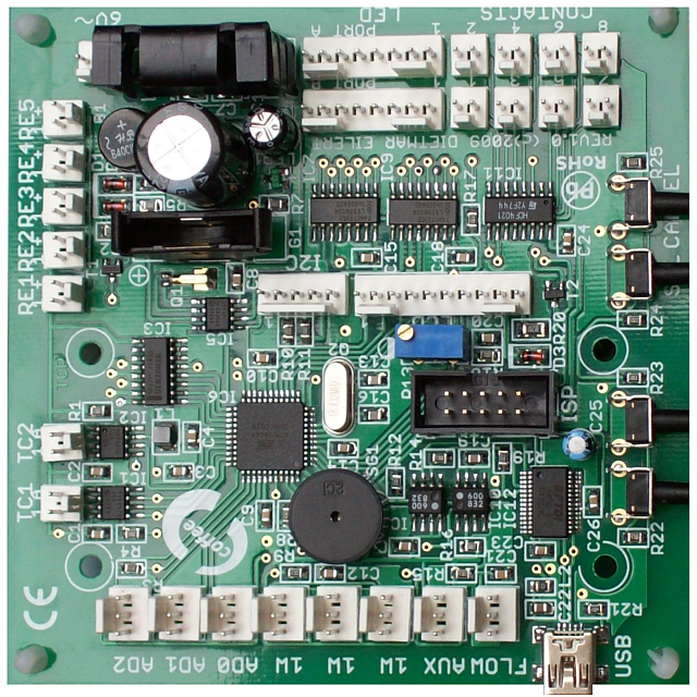 faustino platform hardware